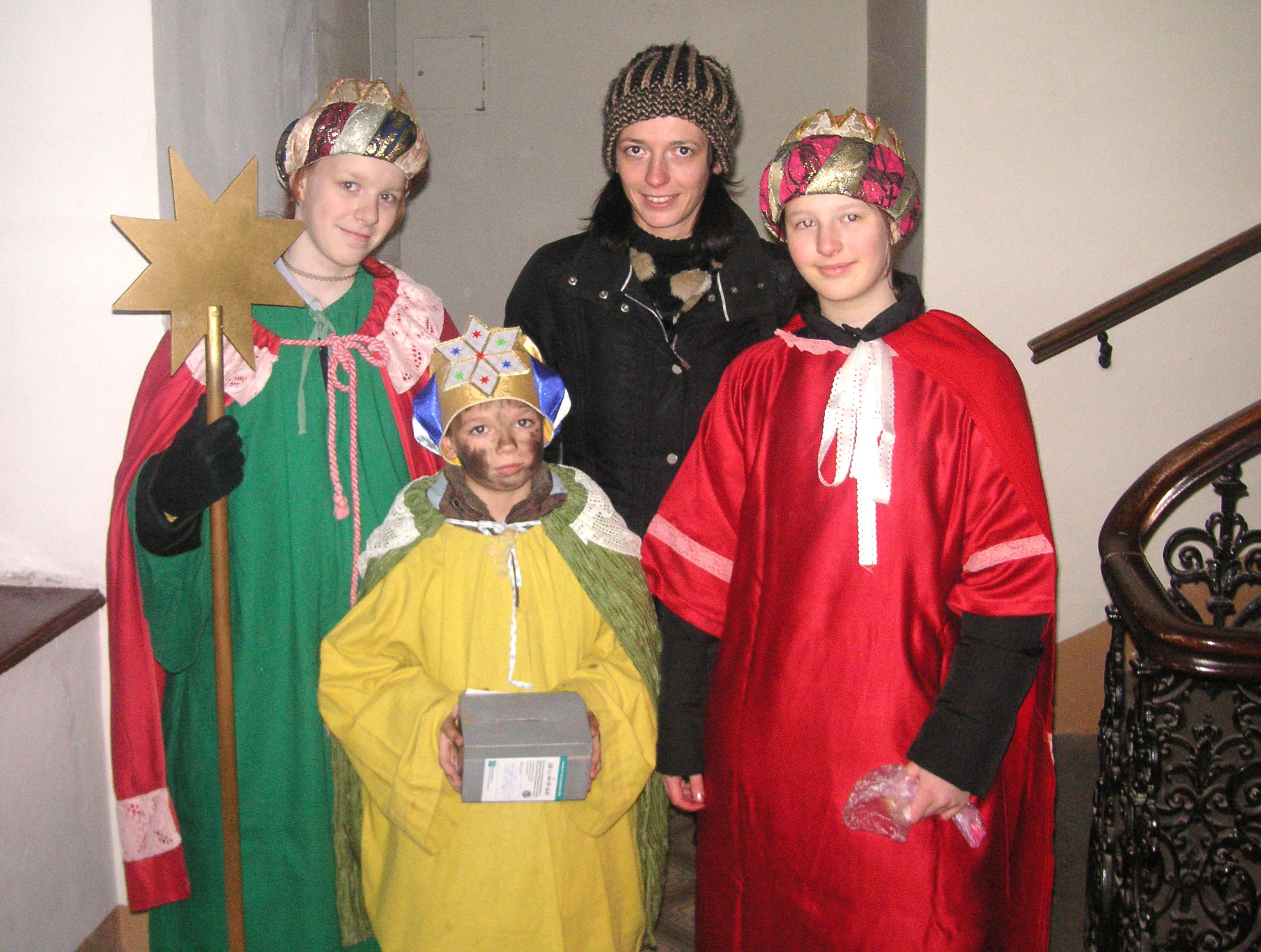 Sternsinger in Vienna, Austria (Traditions of the Epiphany)